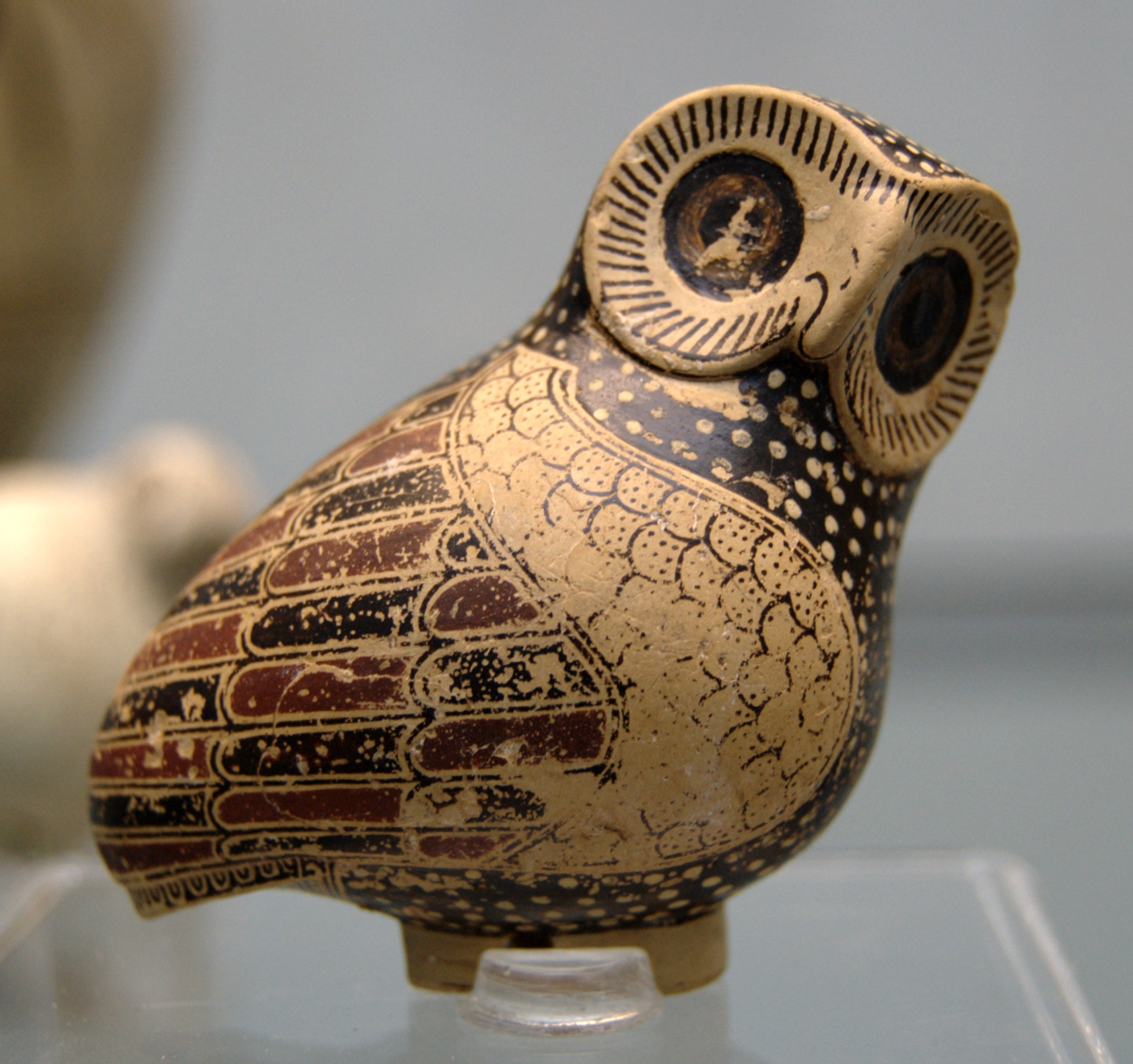 Owl-shaped protocorinthian aryballos, ca. 630 BC. Opening in the tail, hole in the basis to suspend by a lace.